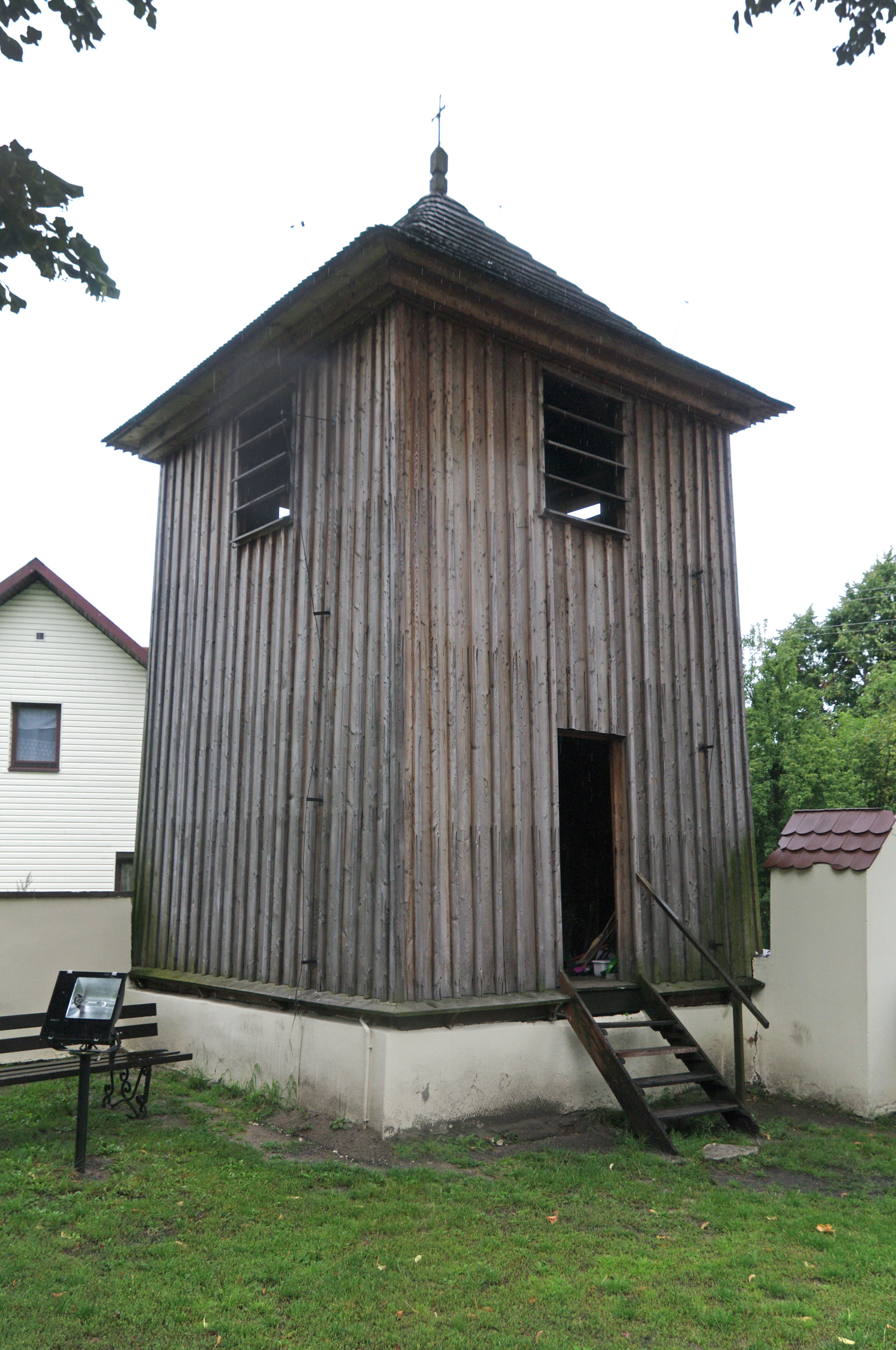 Wooden bell tower in Zrebice, Poland